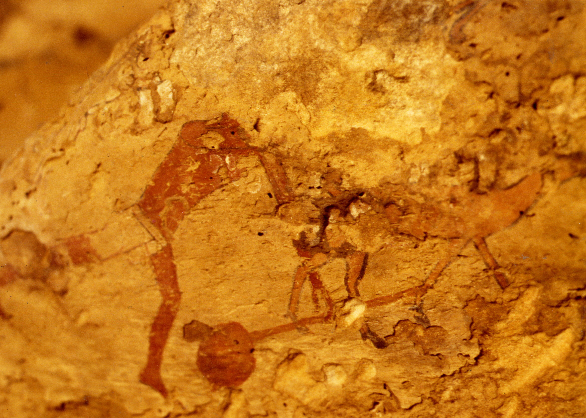 Scene from the tomb chapel of Horemkhaef at Hieraconpolis in Egypt, a hunting scene; Second Intermediate Period